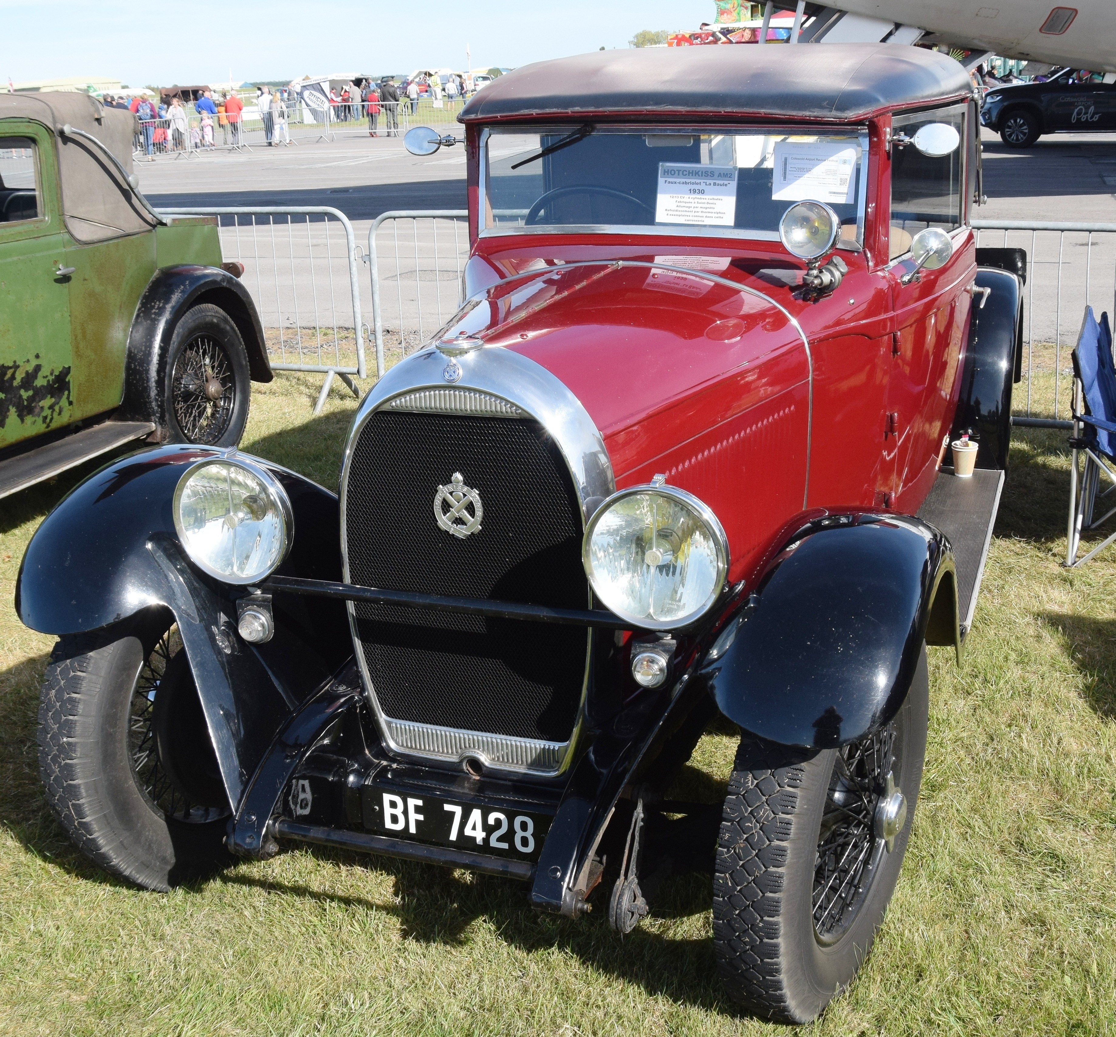 1930 Hotchkiss AM2 car (French) at the 2018 Cotswold Airport Revival Festival, Gloucestershire, England. The window notice says “Hotchkiss AM2 faux-cabriolet “La Baule”. Made in St Denis in Paris. The AM2 was produced between 1926 and 1932.